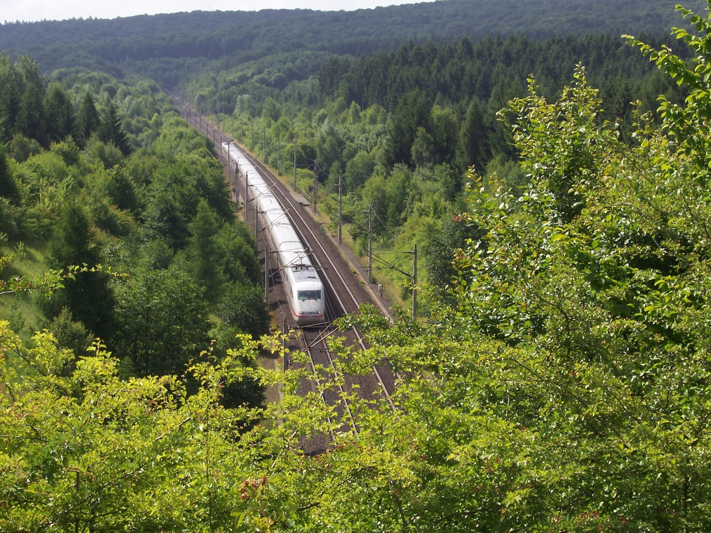 An ICE 1 headed north on the Goettingen-Hannover section of the Wuerzburg-Hannover high-speed line (at Diekholzen changeover)